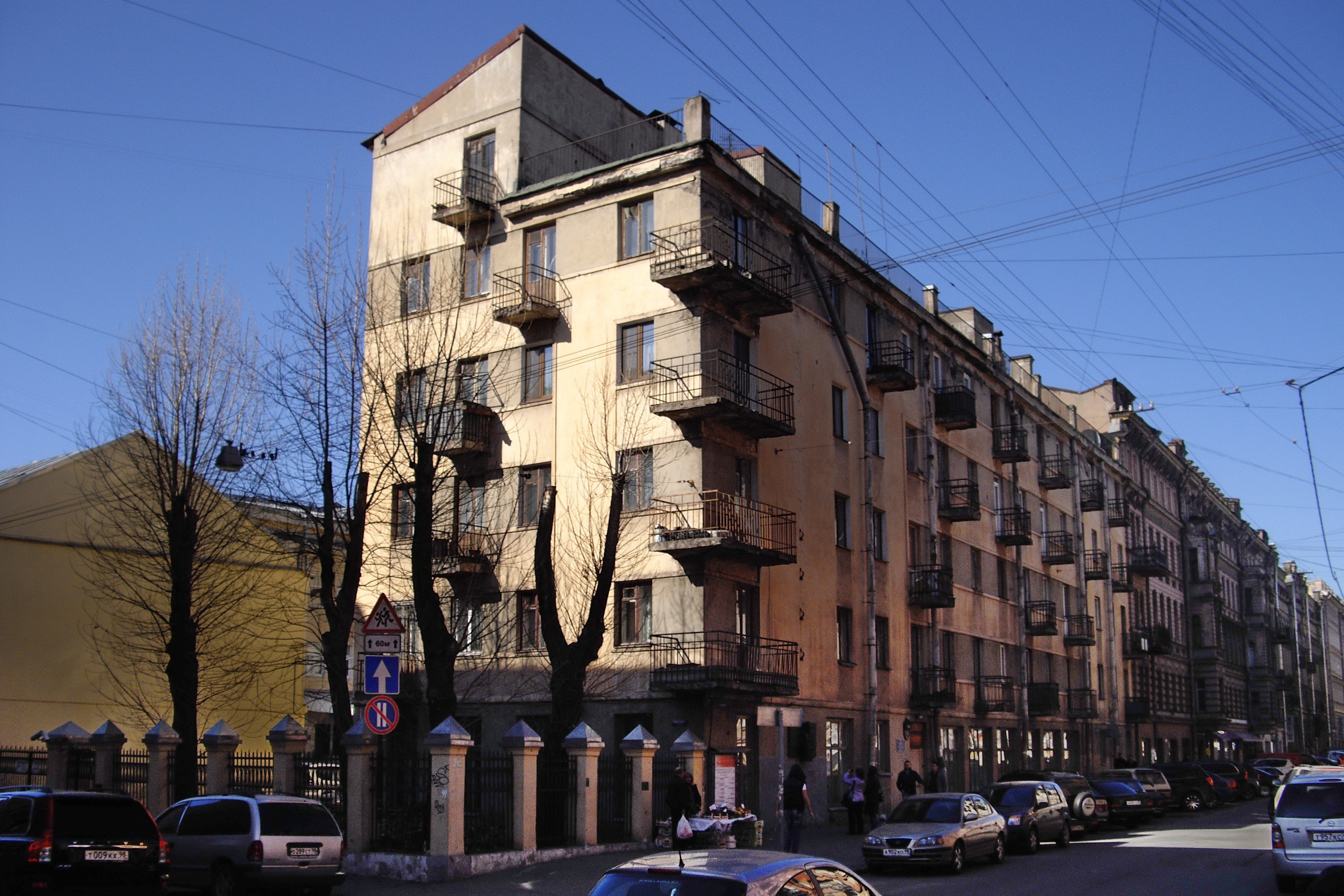 7, Ulitsa Rubinshteina (Anton Rubinstein Street) in Saint-Petersburg, a.k.a. "А Tear of Socialism" (1932), where Olga Bergholtz lived.